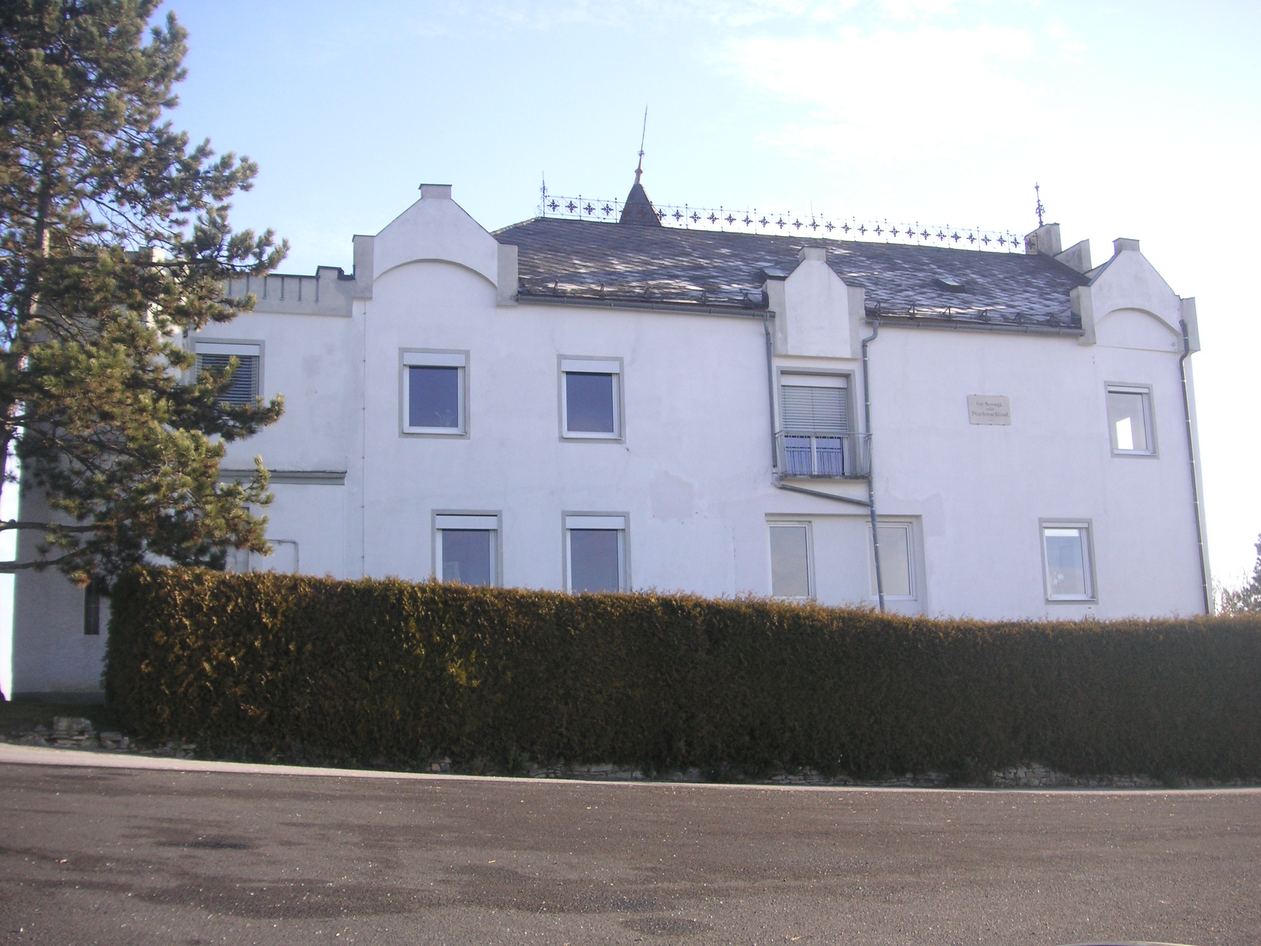 The Schloss Sonneck in St. Bartholomä, Styria, Austria. View from the West